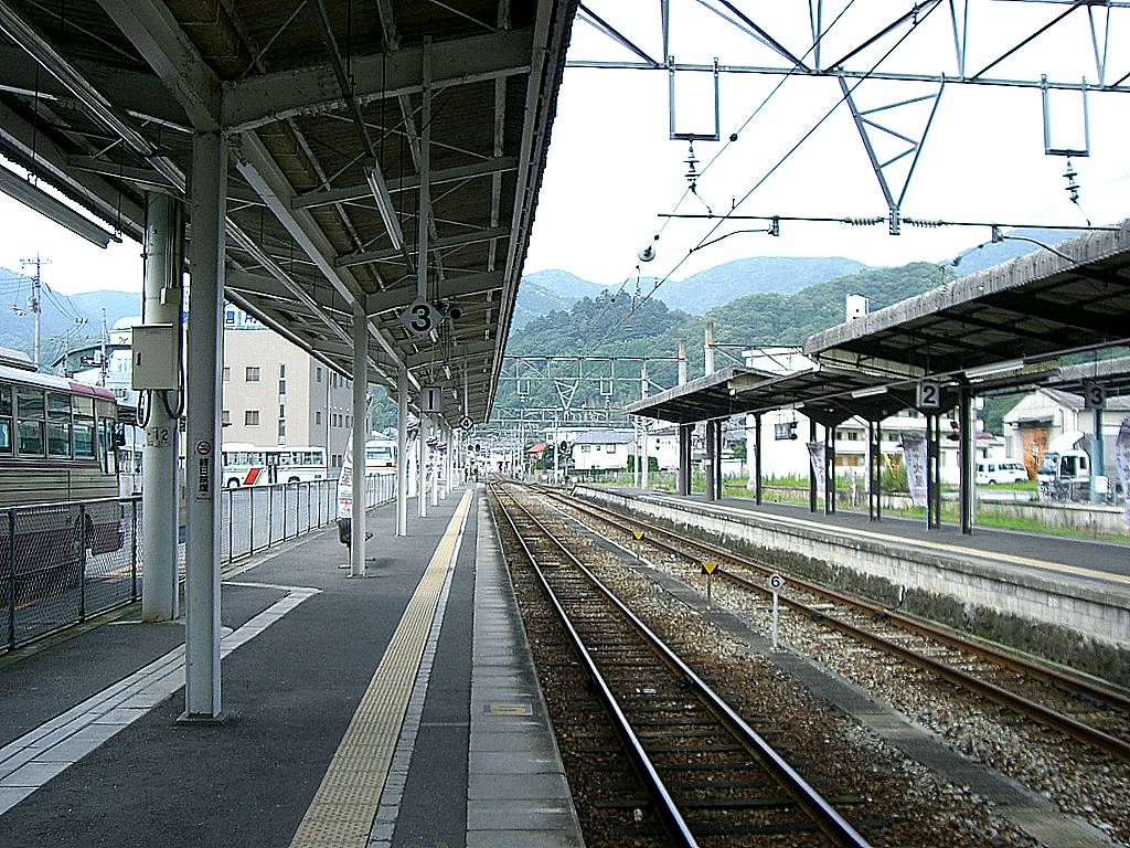 JR伯備線、備中高梁駅。新見方面。 投稿者が撮影。2006年7月22日West Japan Railway Bitchū-Takahashi Station platform area looking toward Niimi Station in Okayama Prefecture, Japan.